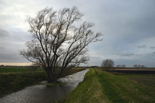 Soham Lode Soham Lode is an artificial river, effectively a drainage ditch. The water in the river is considerably higher than the surrounding land, which is at sea-level.